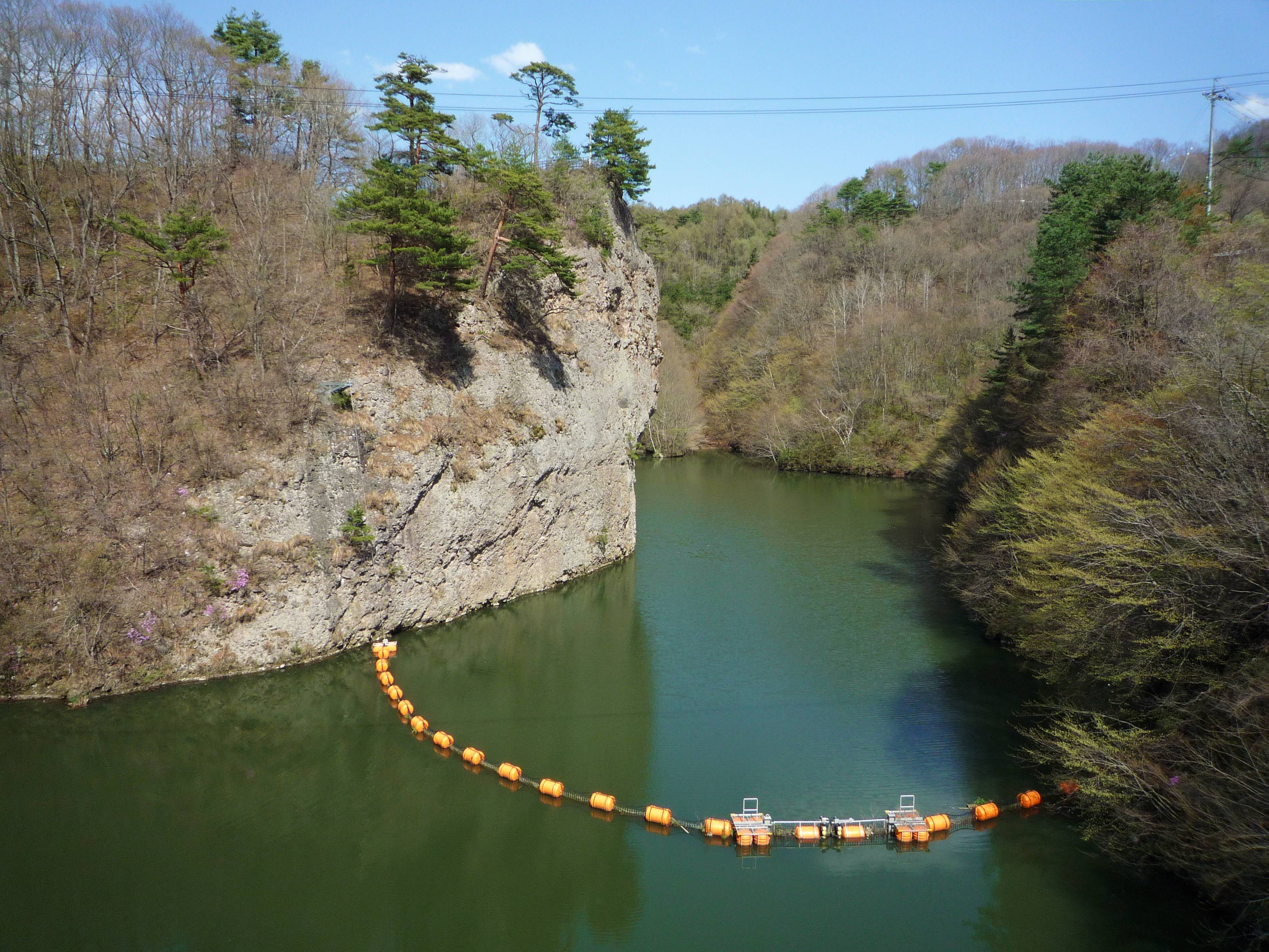 Yukawa Dam.